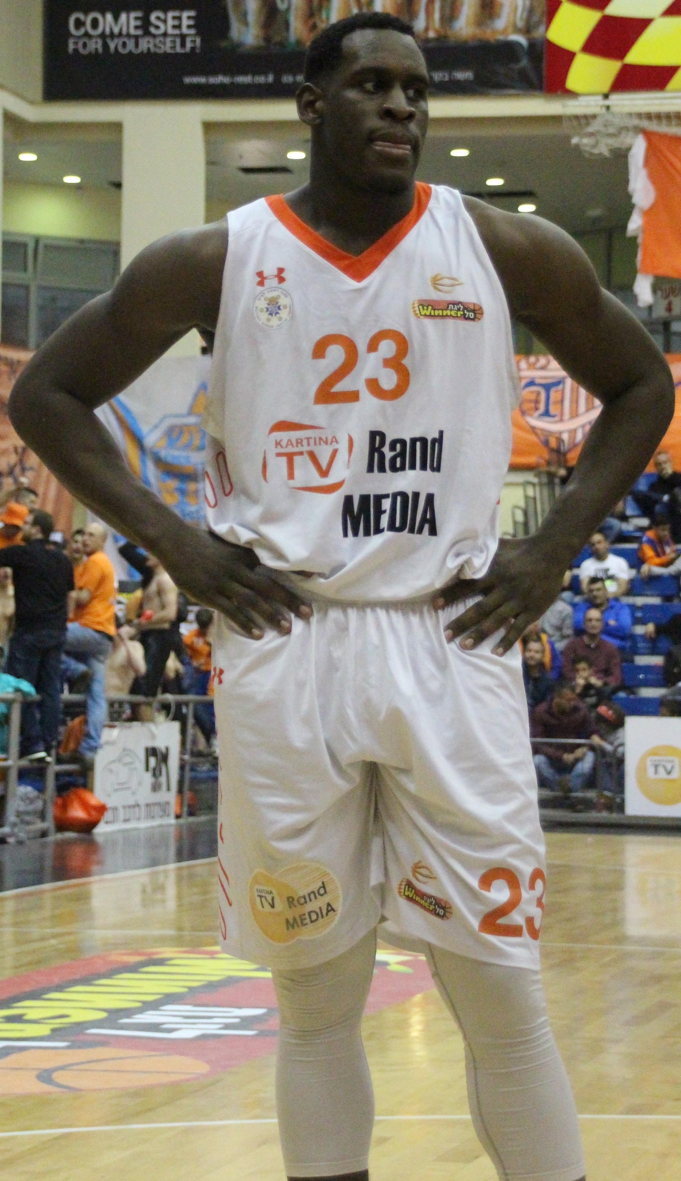 Javon McCrea during Maccabi Rishon LeZion game, 05.03.2017